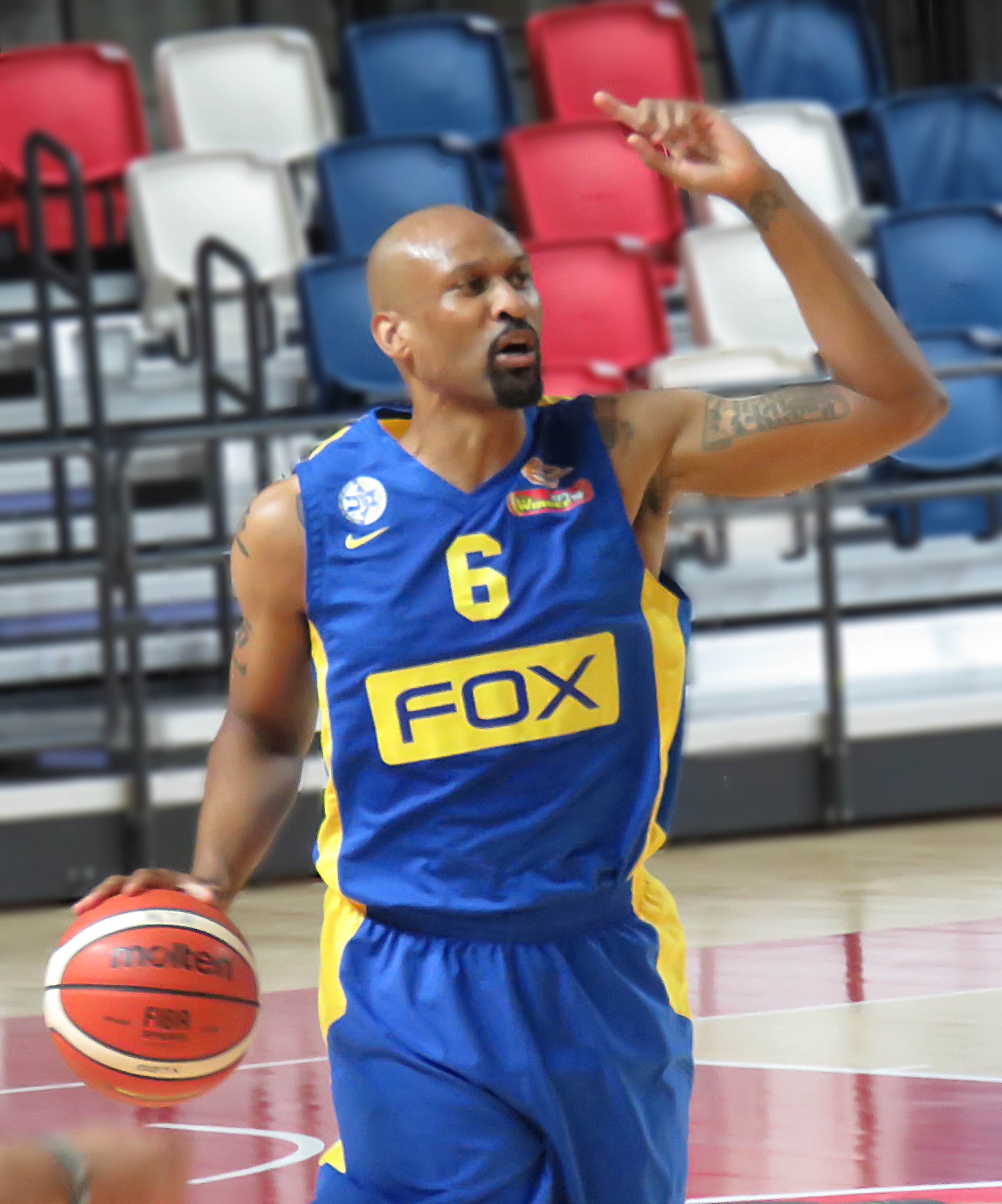 Maccabi Rishon LeZion vs. Maccabi Tel Aviv B.C., 26 September, 2015